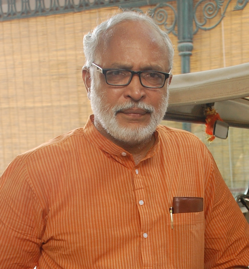 vedakumar